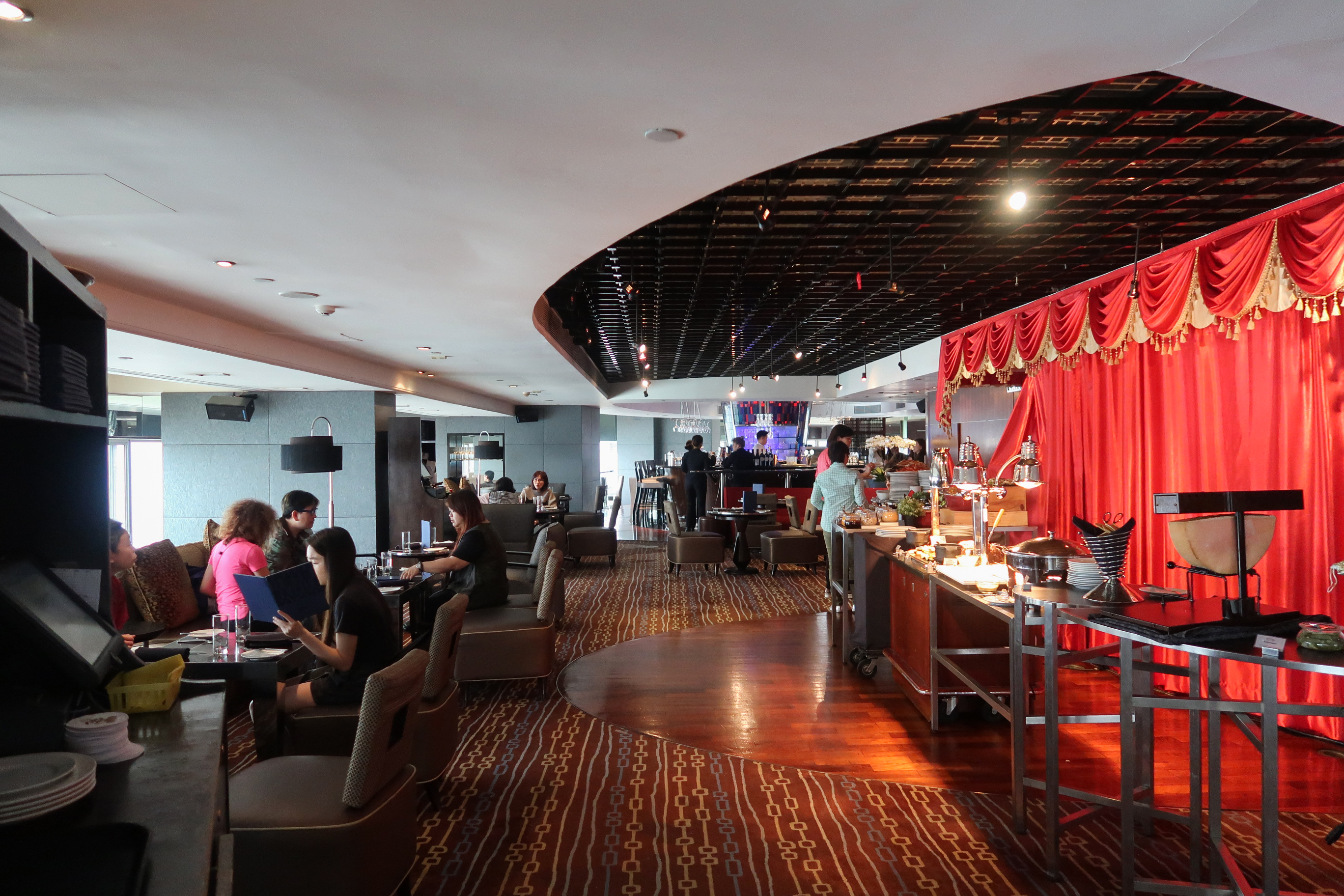 The Excelsior Hong Kong Totts and Roof Terrace